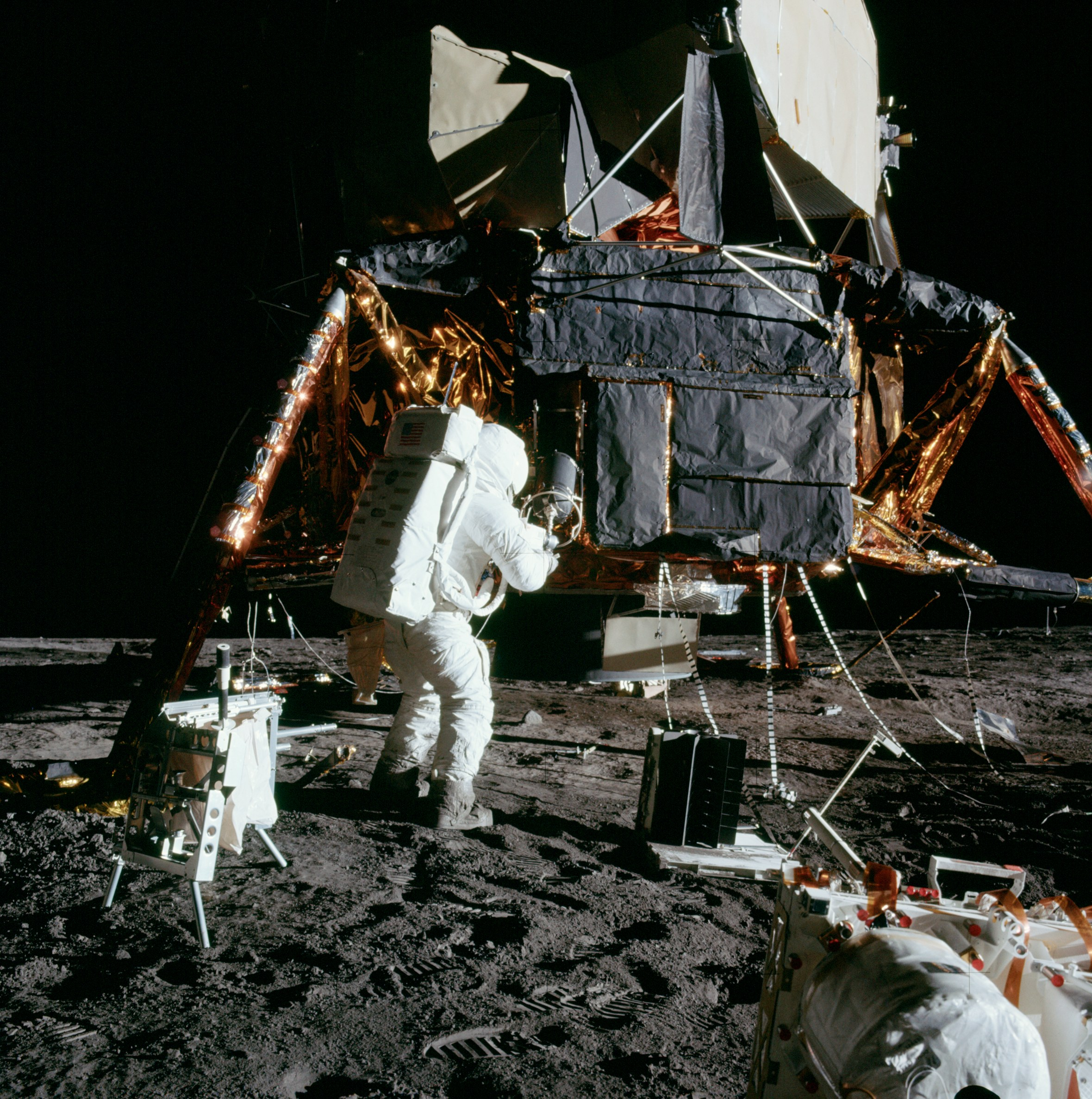 Alan Bean is removing the dome from the RTG cask.